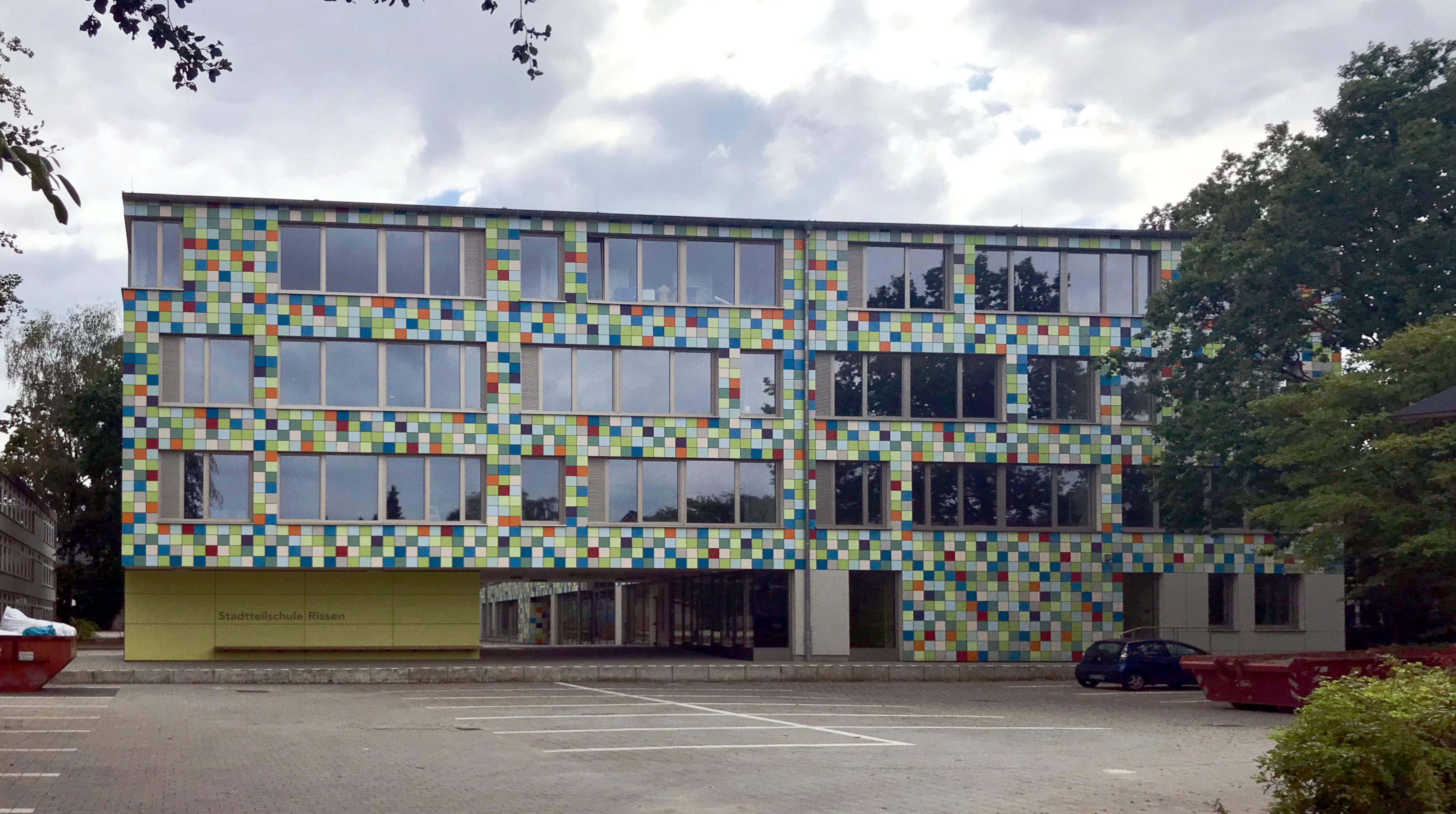 Neubau (Hauptgebäude mit Klassen- und Fachräumen) der Stadtteilschule Rissen in Hamburg, vom Voßhagen aus gesehen.